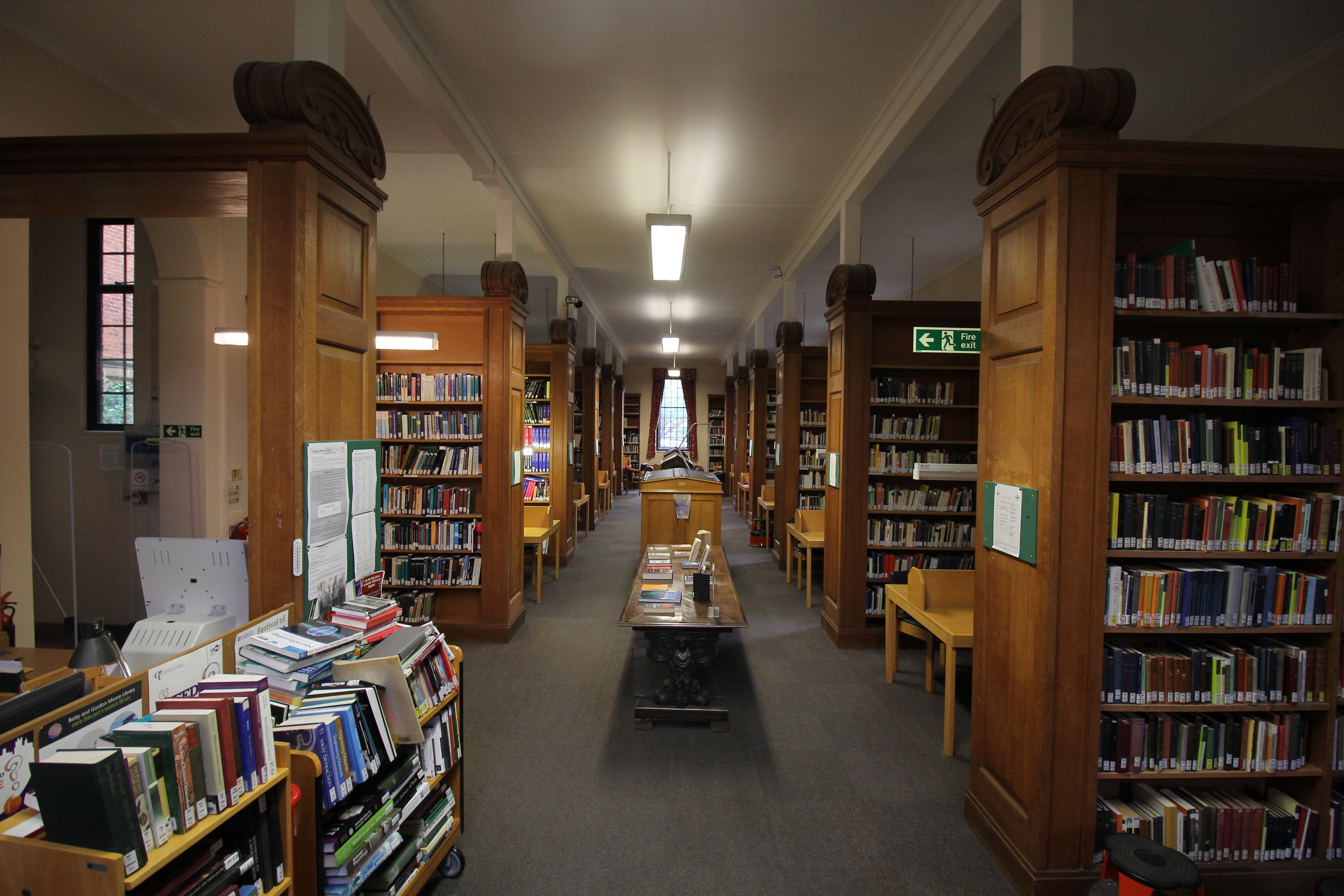 SelwynCollegeCambridge_Library_4